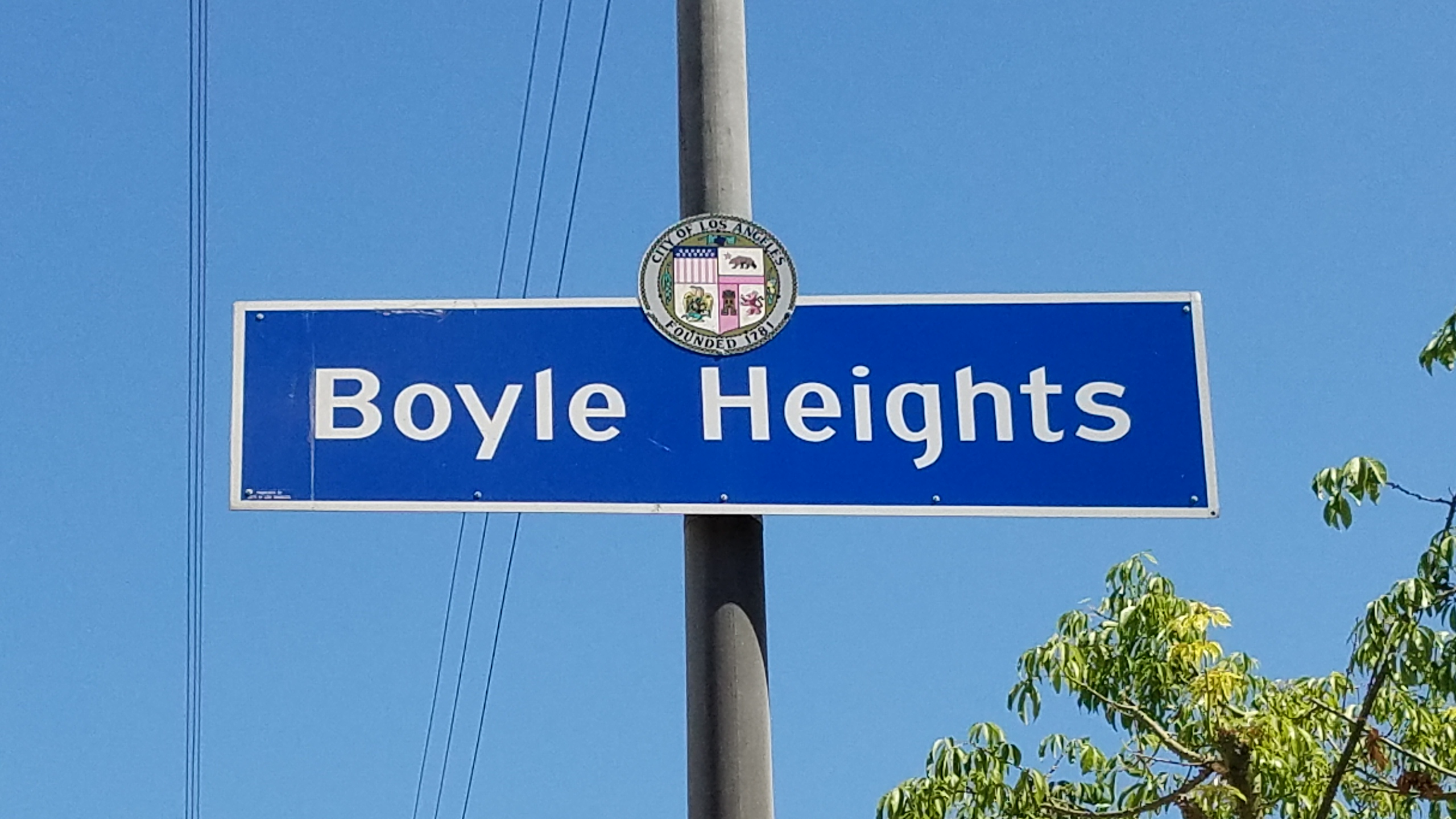 Sign of Boyle Heights, Los Angeles, California, USA.